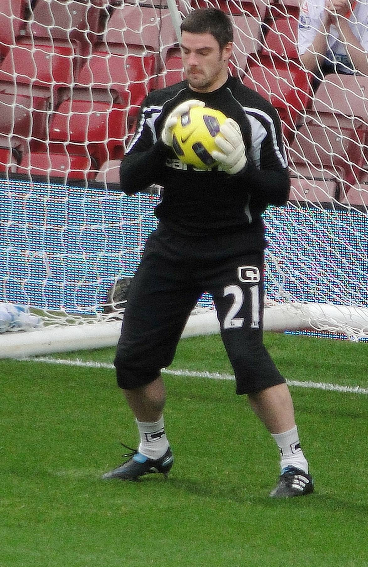 Blackpool goalkeeper, Matt Gilks warming-up before their game at Upton Park against West Ham United in November 2010.